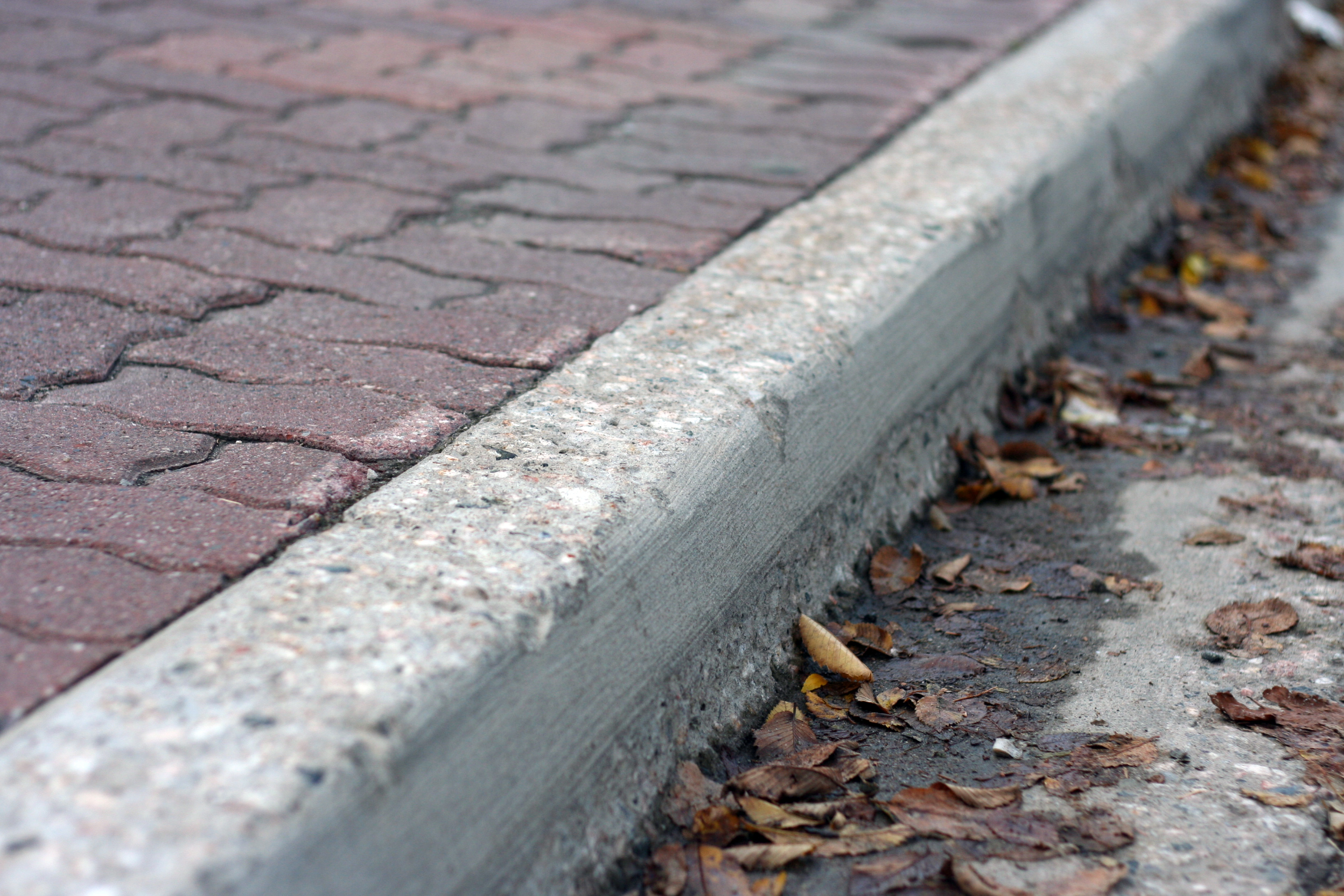 Road side curb in Dryden, Ontario.